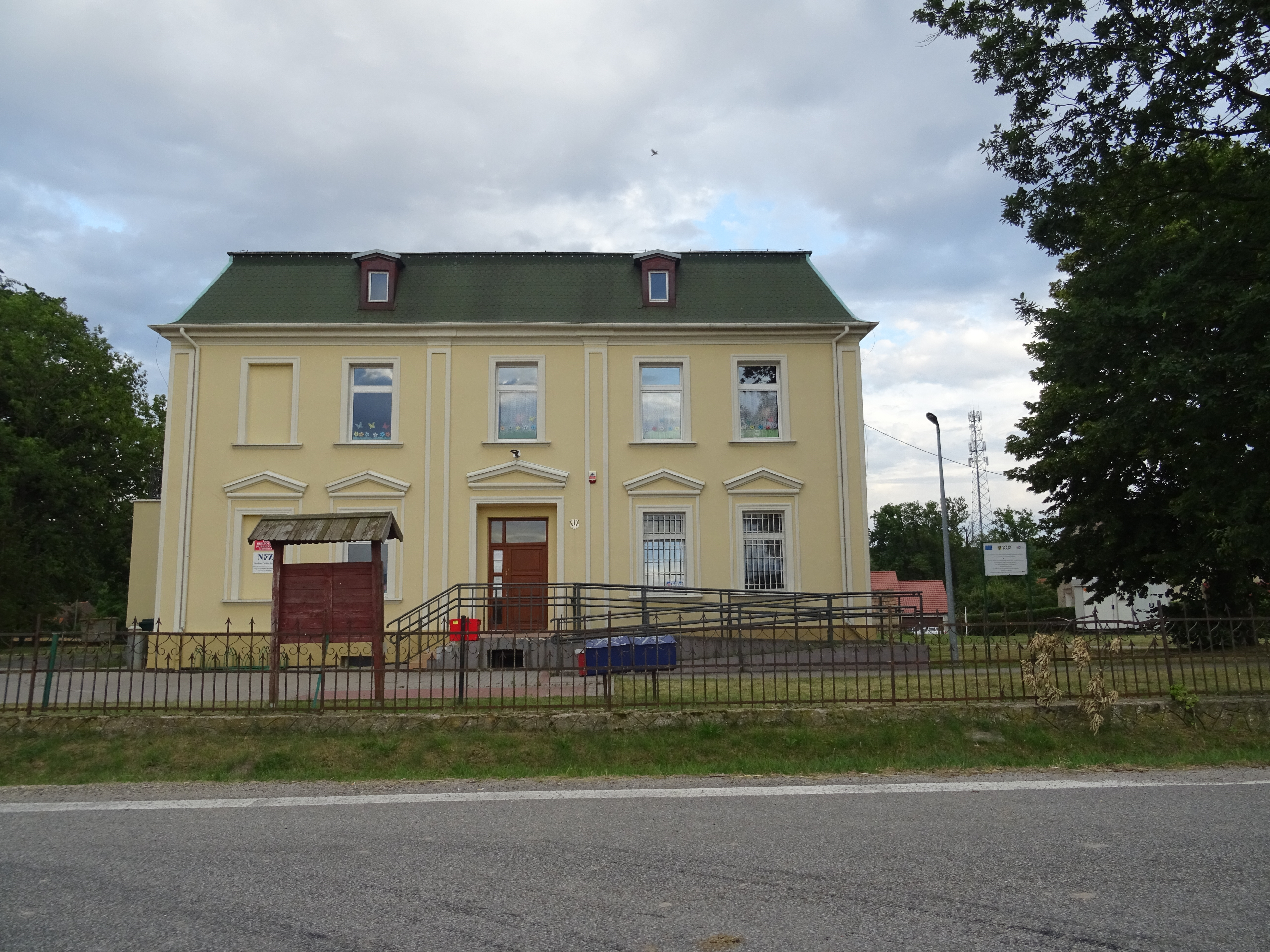 This photograph was created as a part of Wikiexpedition Lower Silesia, a project supported by Wikimedia Poland grant.